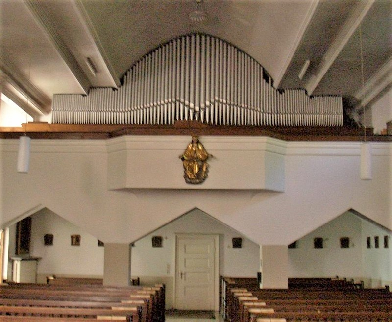 Späth-Orgel des Oblatenklosters Saarbrücken (2011 verkauft)